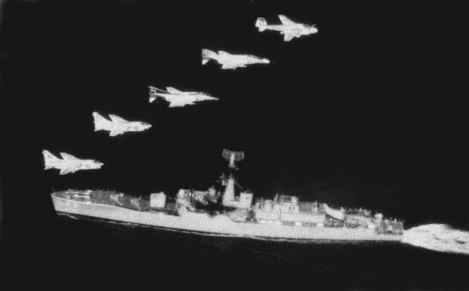 The Royal Australian Navy frigate HMAS Paramatta (DE 46) underway, circa 1974. She is overflown by U.S. Navy aircraft from Carrier Air Wing 5 (CVW-5), based aboard the aircraft carrier USS Midway (CVA-41).